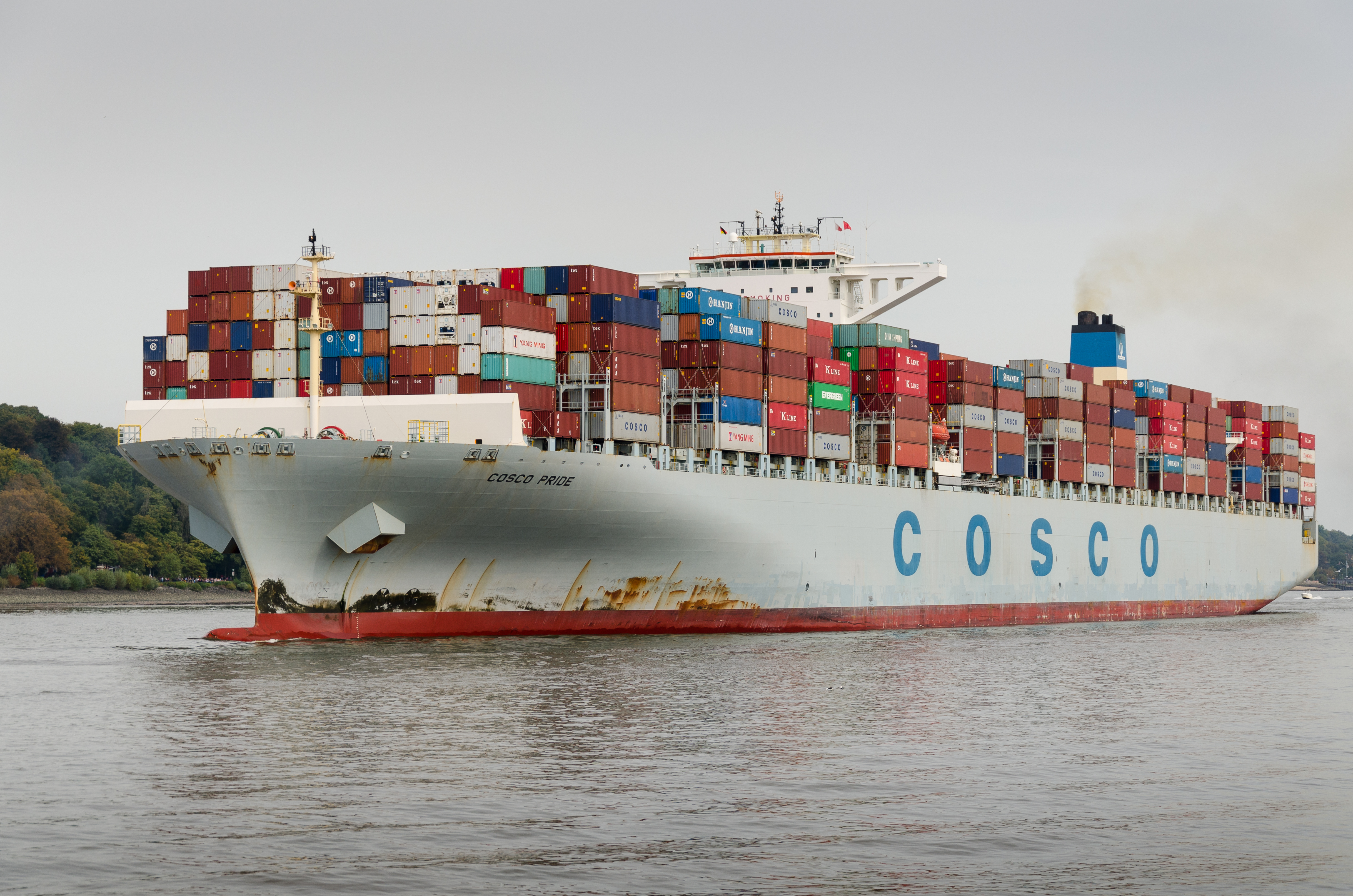 Container ship "Cosco Pride" (IMO 9472153) departing Hamburg, Germany.